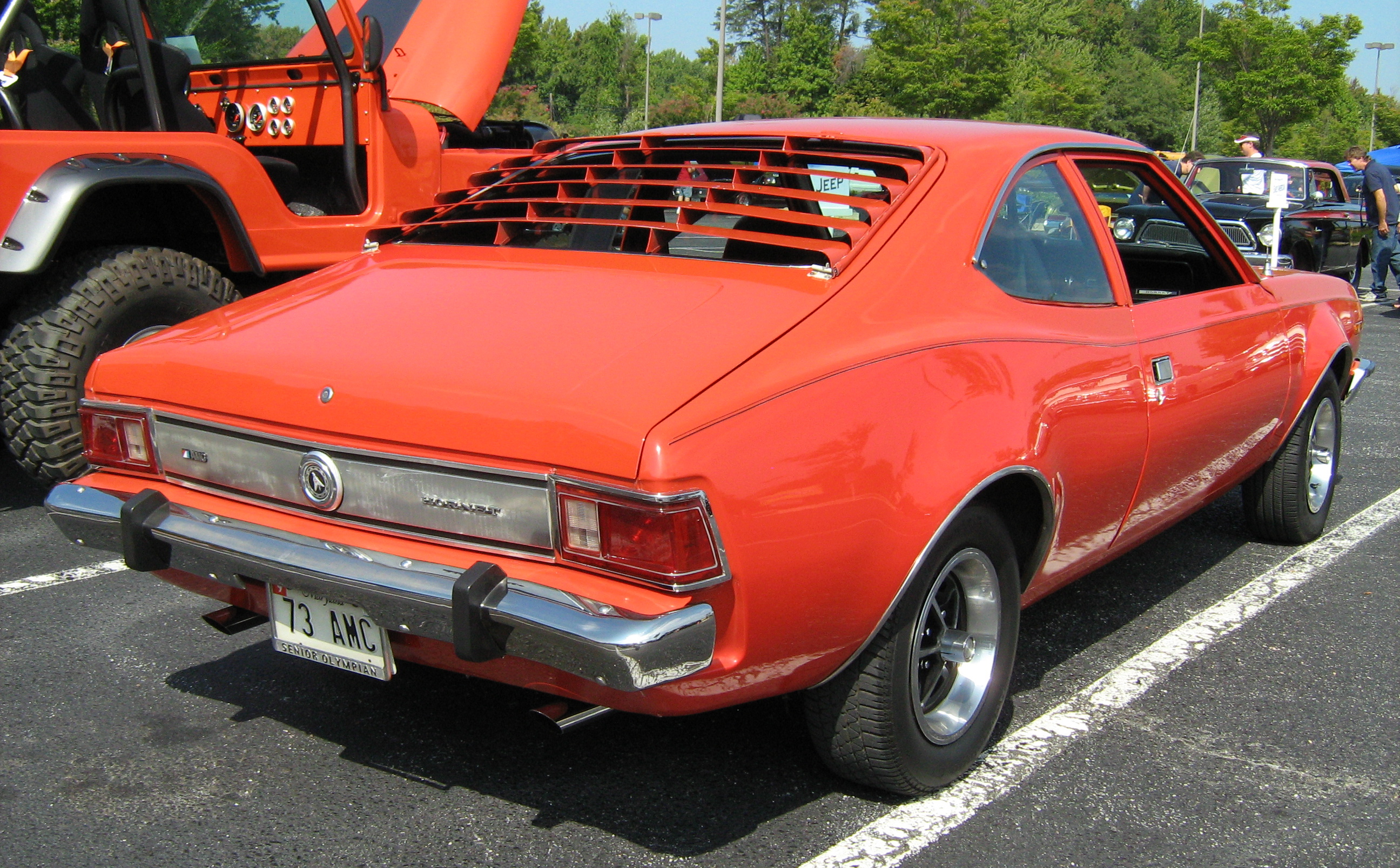 1973 AMC Hornet hatchback, a compact car made by American Motors Corporation (AMC). This body style was introduced for the 1973 model year. This is an original factory equipped car with a 304 cubic inch (5.0 L) V8 engine and manual floor shift transmission. This car is finished in "Trans Am Red" (paint code D-7). Rear right view of the Hornet's semi-fastback roof design.